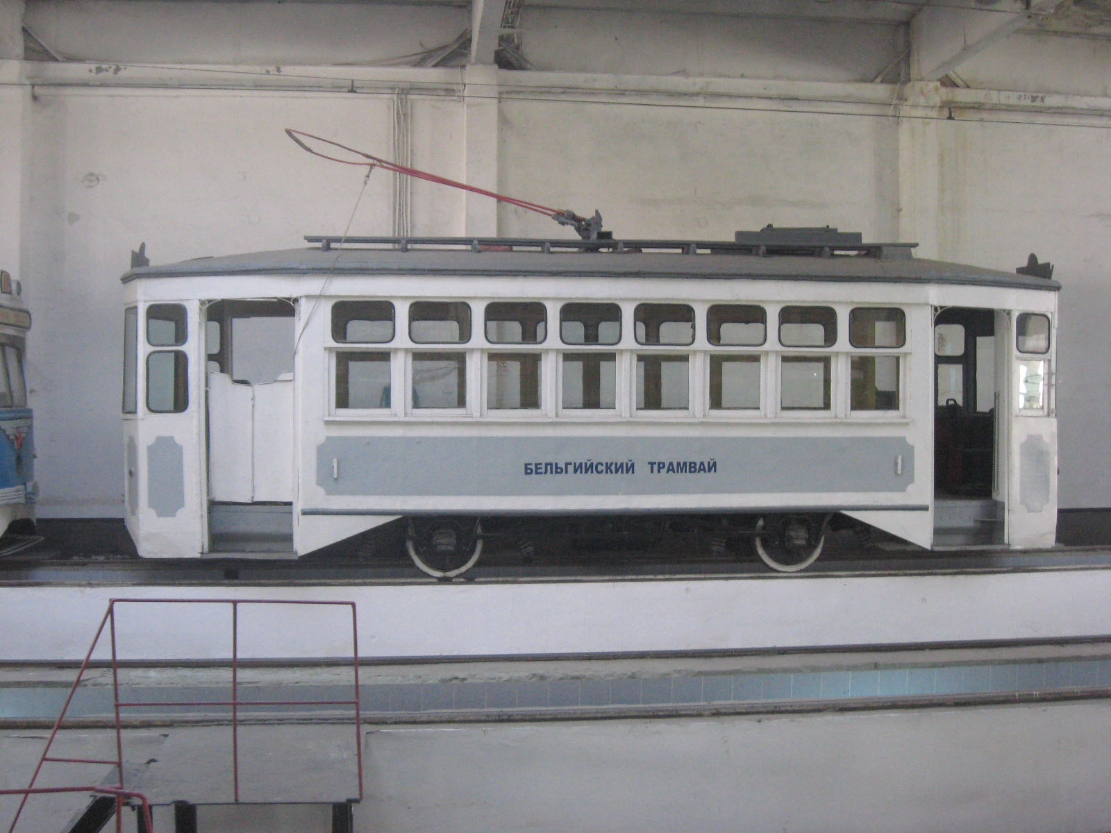 Kh wagon in Electric vehicles museum of Uzbekistan